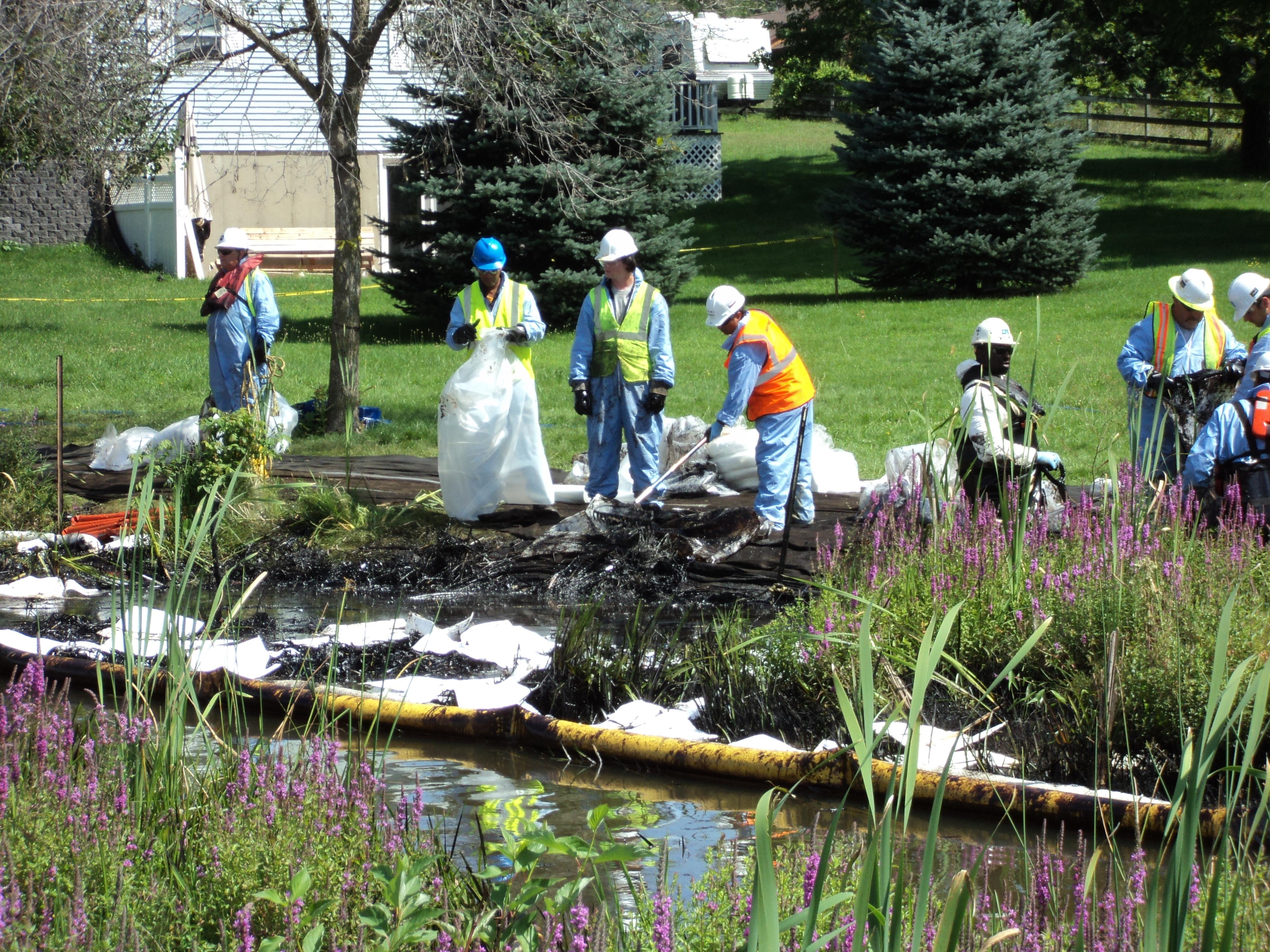 Cleanup crews remove oil and contaminated materials from the Talmadge Creek stream bank near Marshall, Michigan. More about EPA's response to the Enbridge oil spill